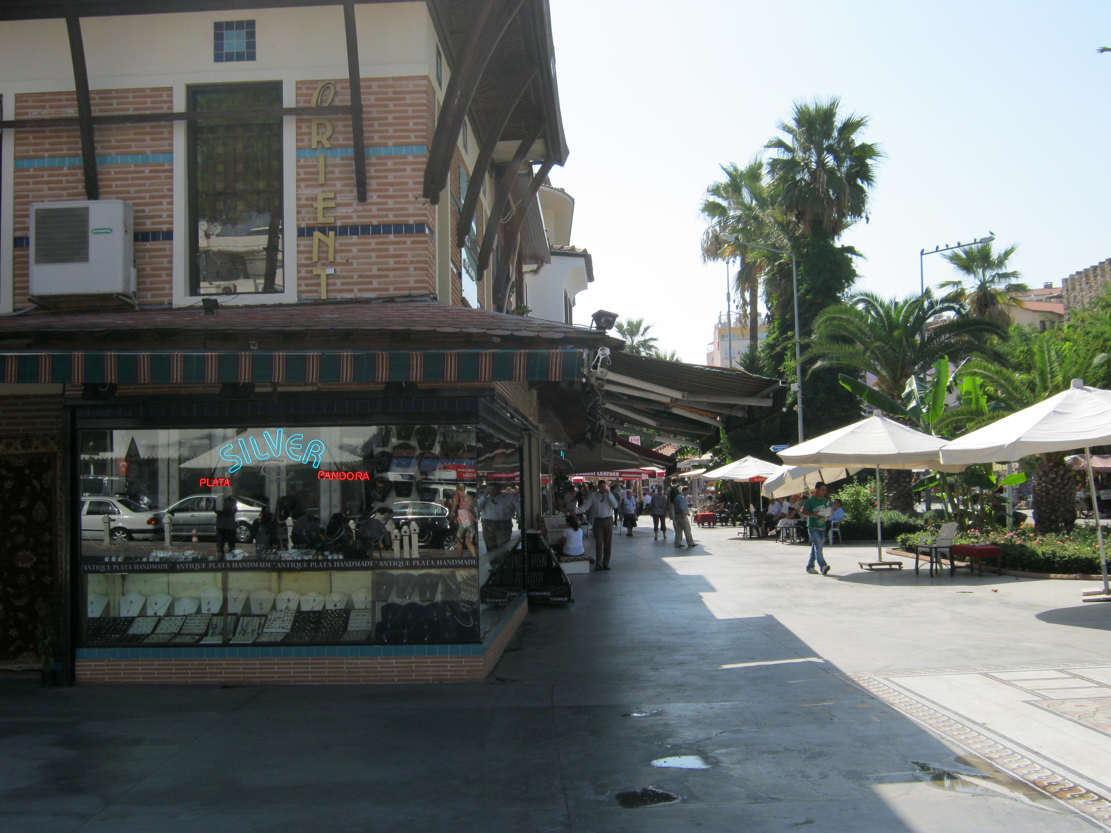 Street in Kusadasi